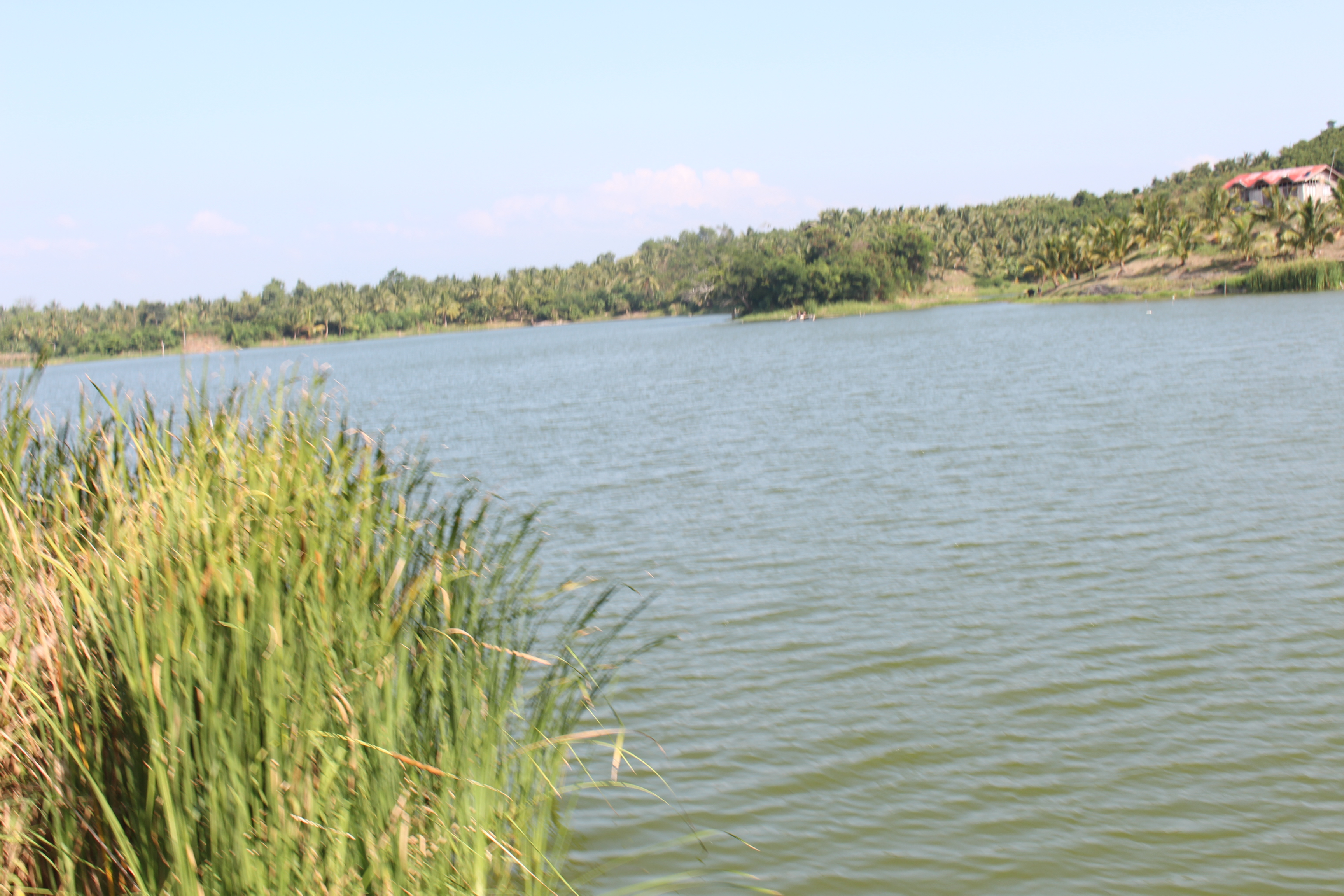 A huge lake in the middle of Alabel, Sarangani Province